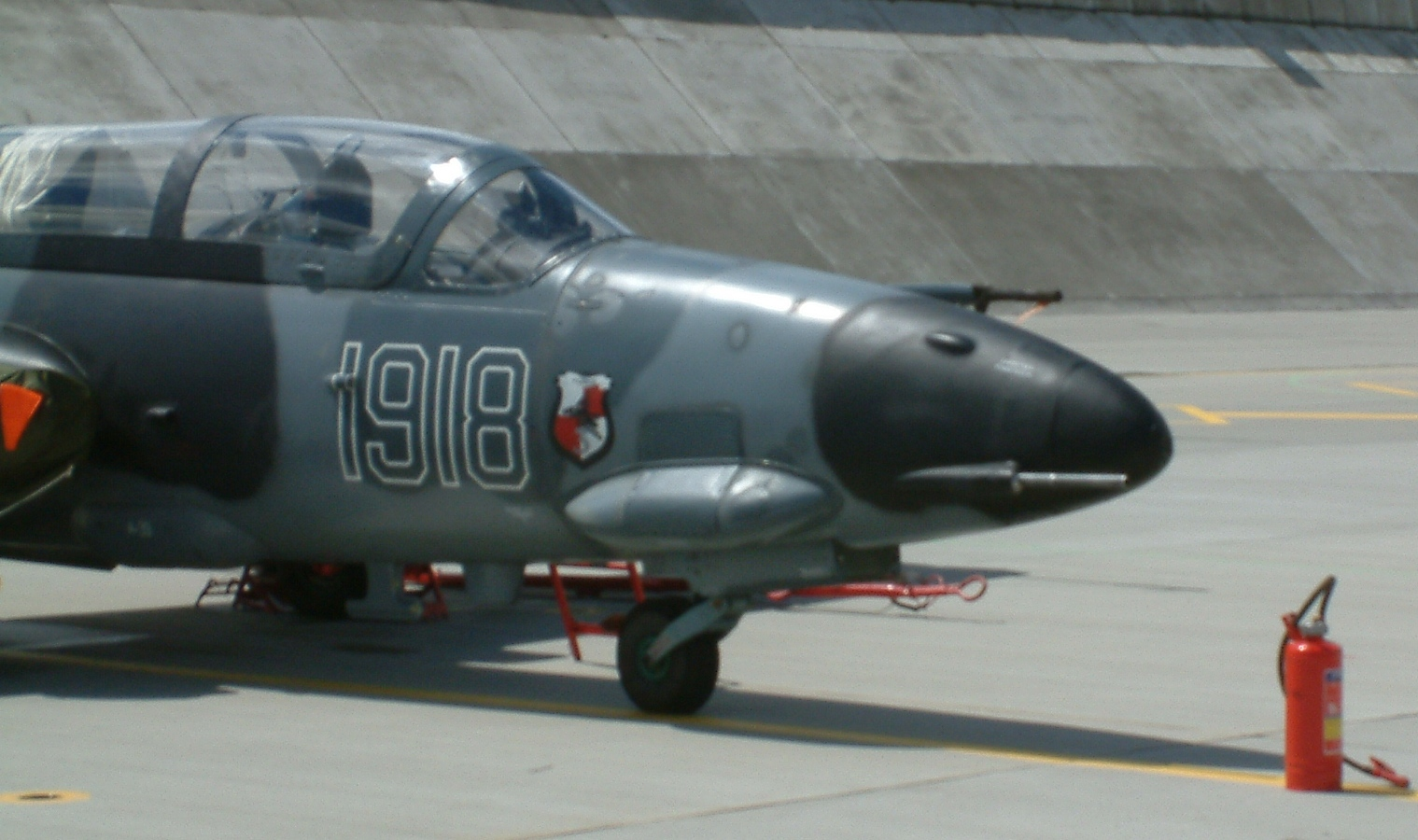 Nose of TS-11 Iskra R with markings of 3rd Tactical Sqn